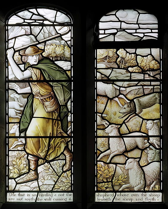 Stained-glass window in Christ Church, Over Wyresdale, Lancashire. It was produced by the firm of Shrigley and Hunt from a design by Carl Almquist (1848-1924).